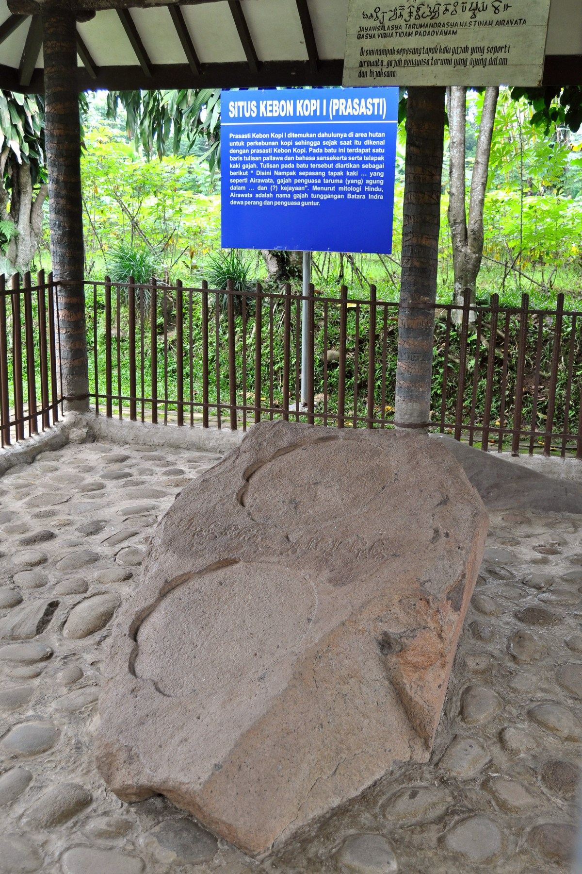 Kebon Kopi I inscription at Pasir Muara; now Ciaruteun Ilir village in the District of Cibungbulang, Bogor Regency, West Java, Indonesia.